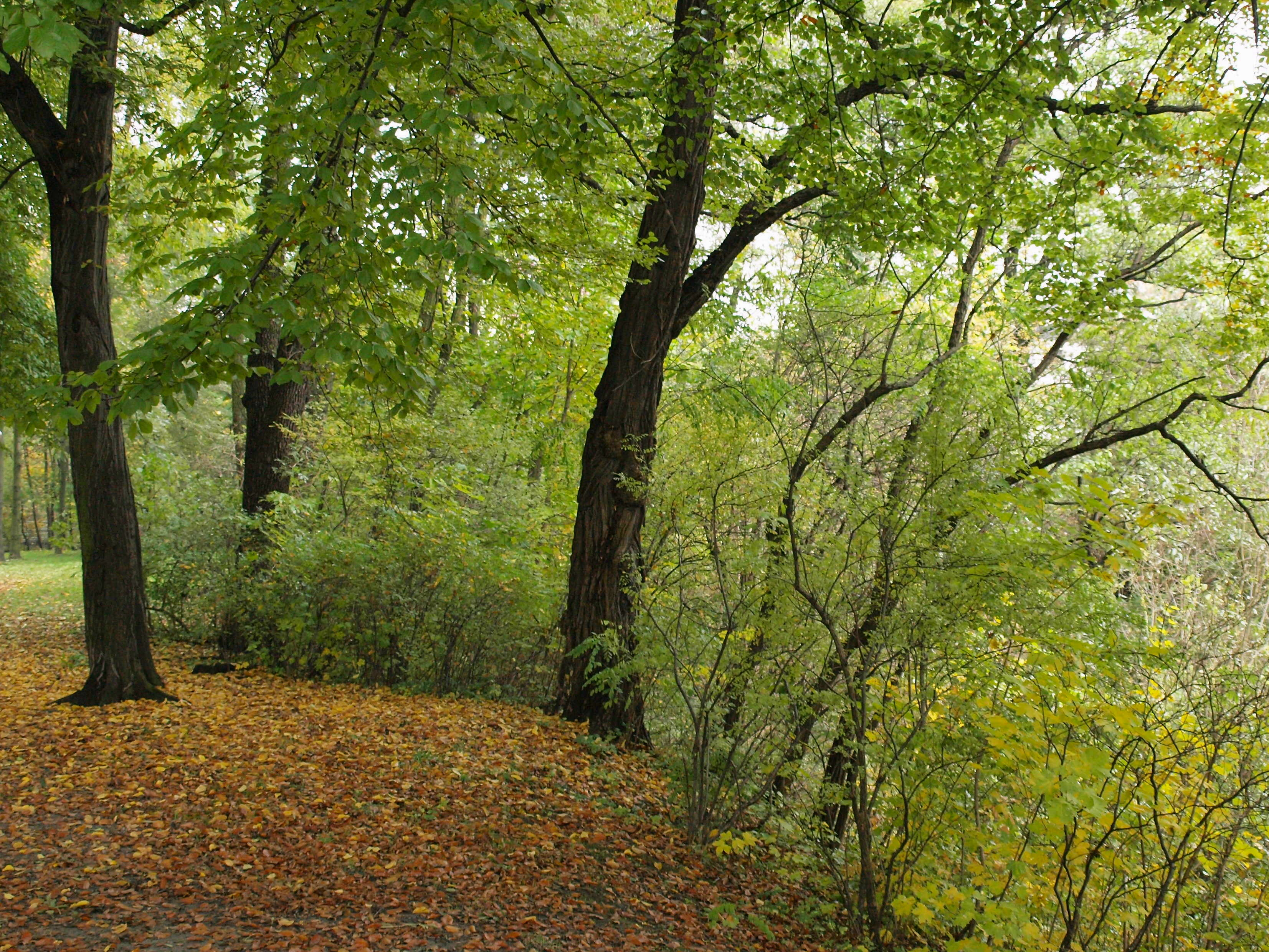 Cracow, Jerzmanowskis' Park